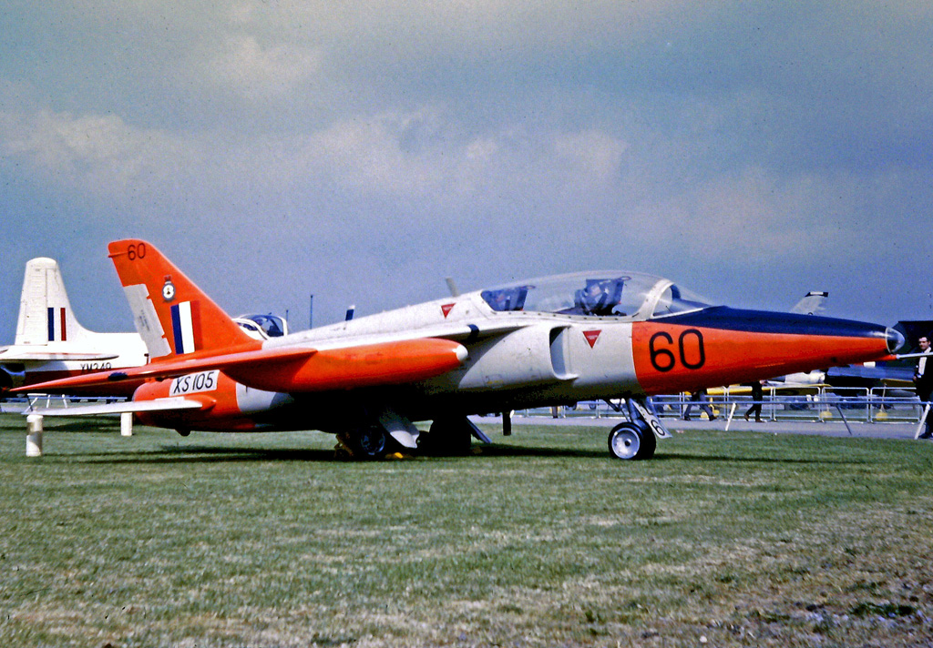 Hawker Siddeley (Folland) Gnat T.1 XS105 of No.4 Flying Training School RAF at RAF Abingdon in 1968